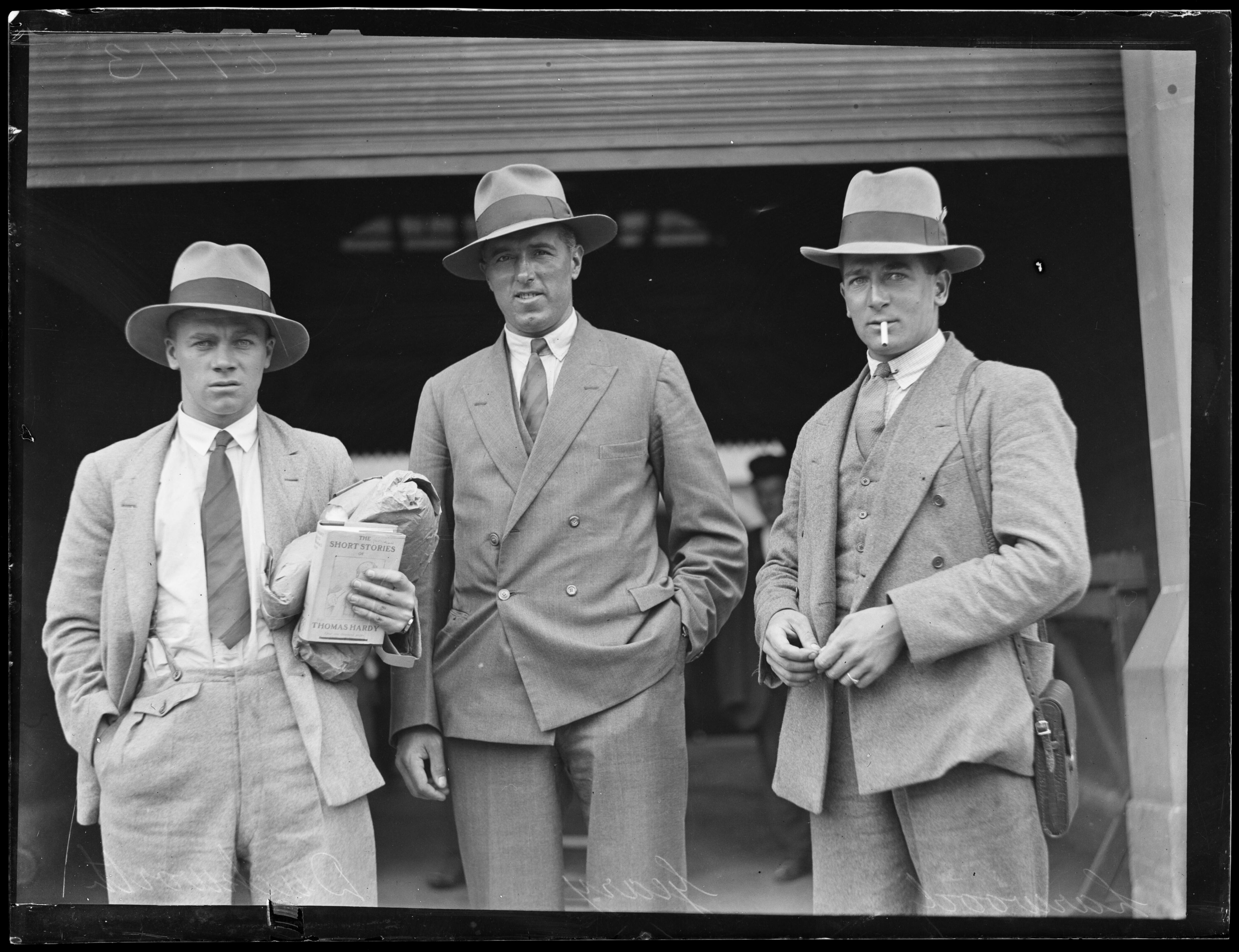 English cricketers George Duckworth, George Geary and Harold Larwood at a train station, New South Wales